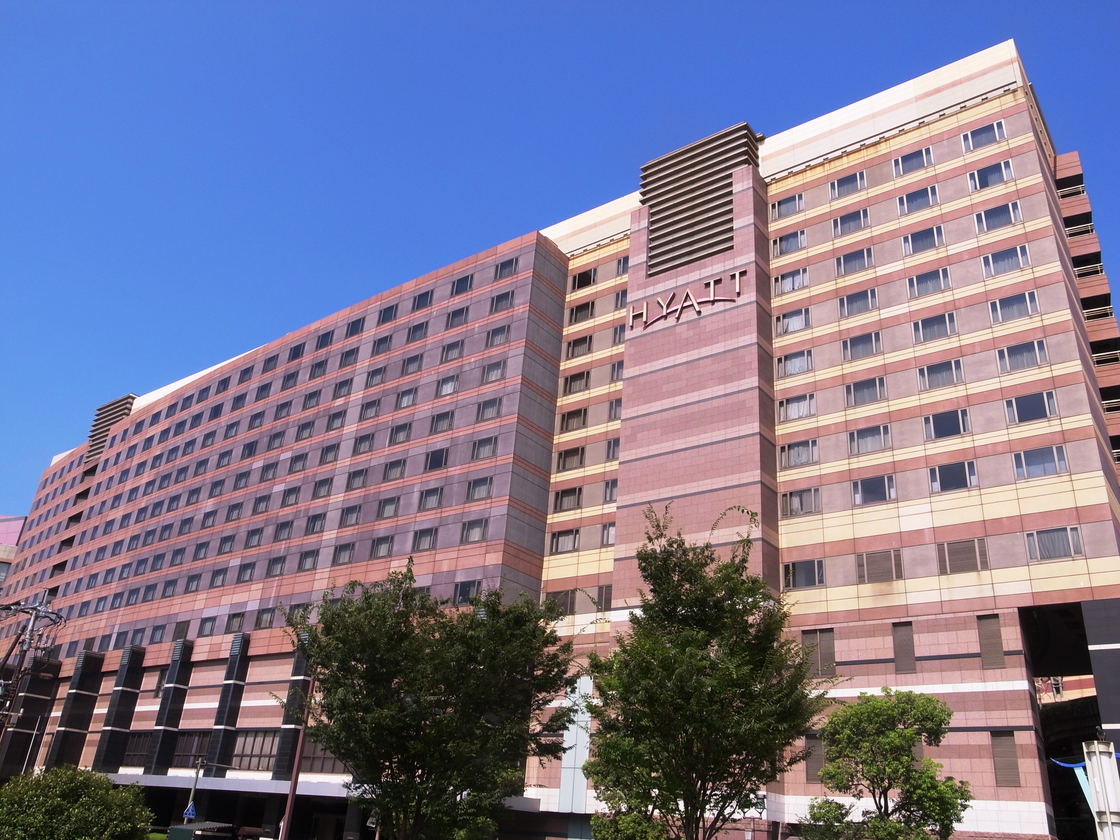 Grand Hyatt Fukuoka